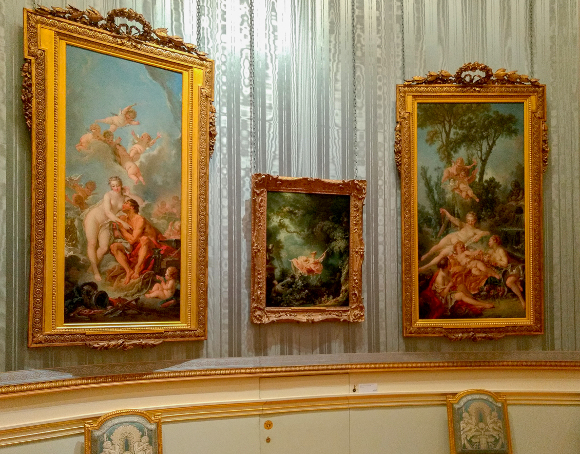 Wallace Collection